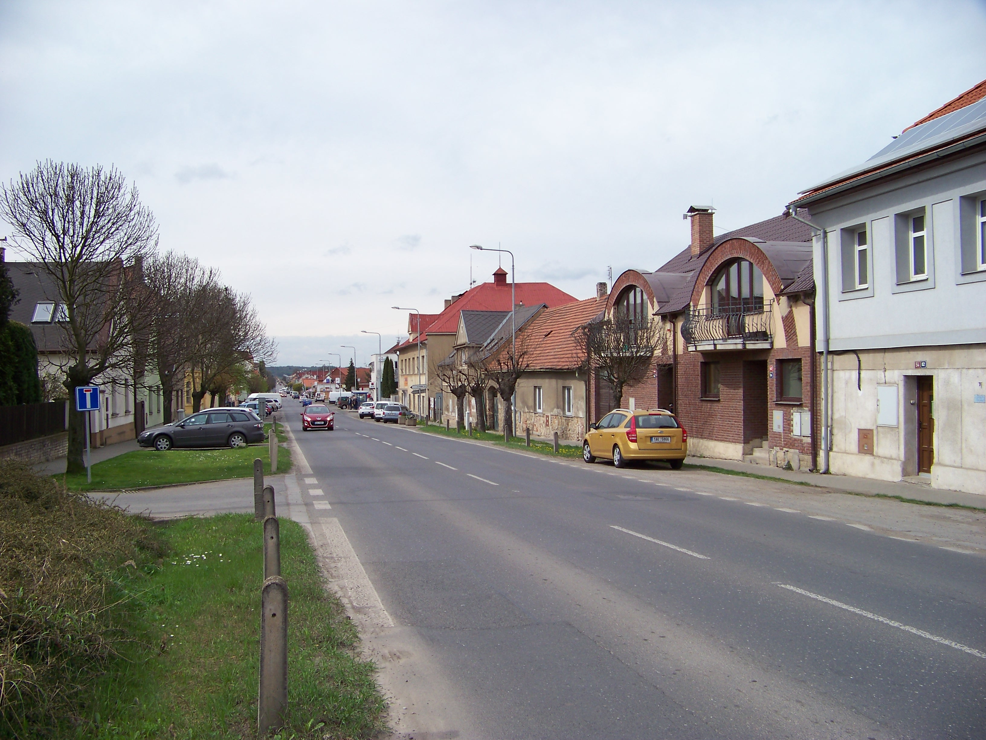 Rudná-Dušníky, Prague-West District, Central Bohemian Region, Czech Republic. Masarykova 54/62, 1417/64, 1416/66, 57/68. - Google Maps - Google Earth